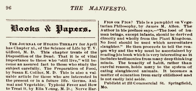 Review for Pigs or Figs, in the Manifesto, pg. 96.